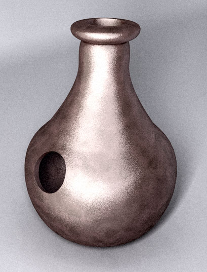 Computer generated image of an udu made by me.